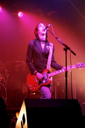 King Adora singer Matt Browne performing live at the London Electric Ballroom in December 2001.